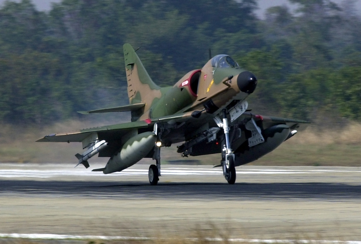 A Republic of Singapore Air Force Douglas A-4SU Skyhawk aircraft takes off at Korat AB, Thailand for a mission in support of Exercise COPE TIGER '02 on 16 Jan 2002. Cope Tiger is an annual, multinational exercise in the Asia-Pacific region which promotes closer relations and enables air force units in the region to sharpen air combat skills and practice interoperability with US Forces. Note the empty multiple ejector rack (MER) mounted on the centerline hardpoint.